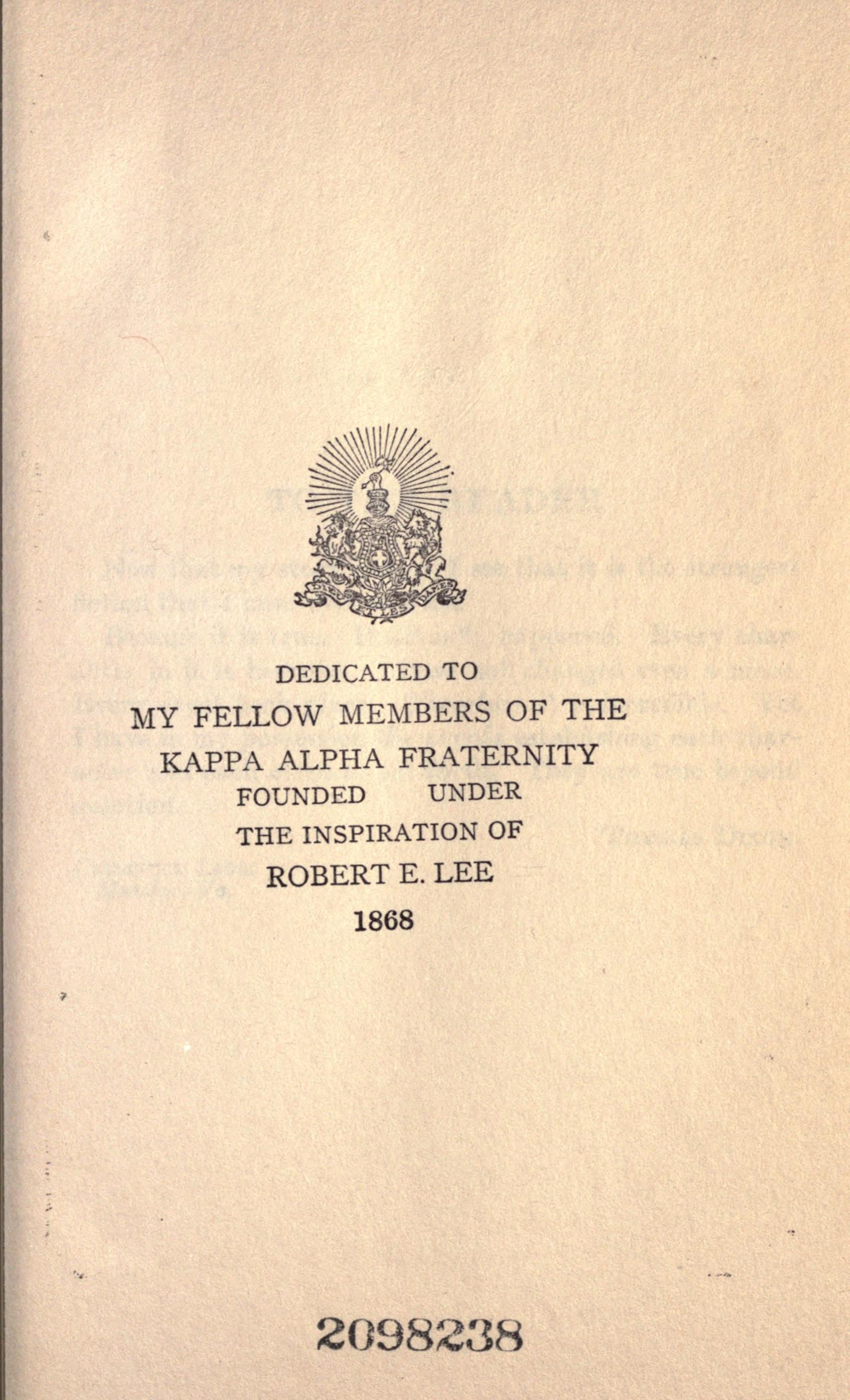 Thomas Dixon's dedication to his Kappa Alpha brothers in his book The man in gray : a romance of north and south